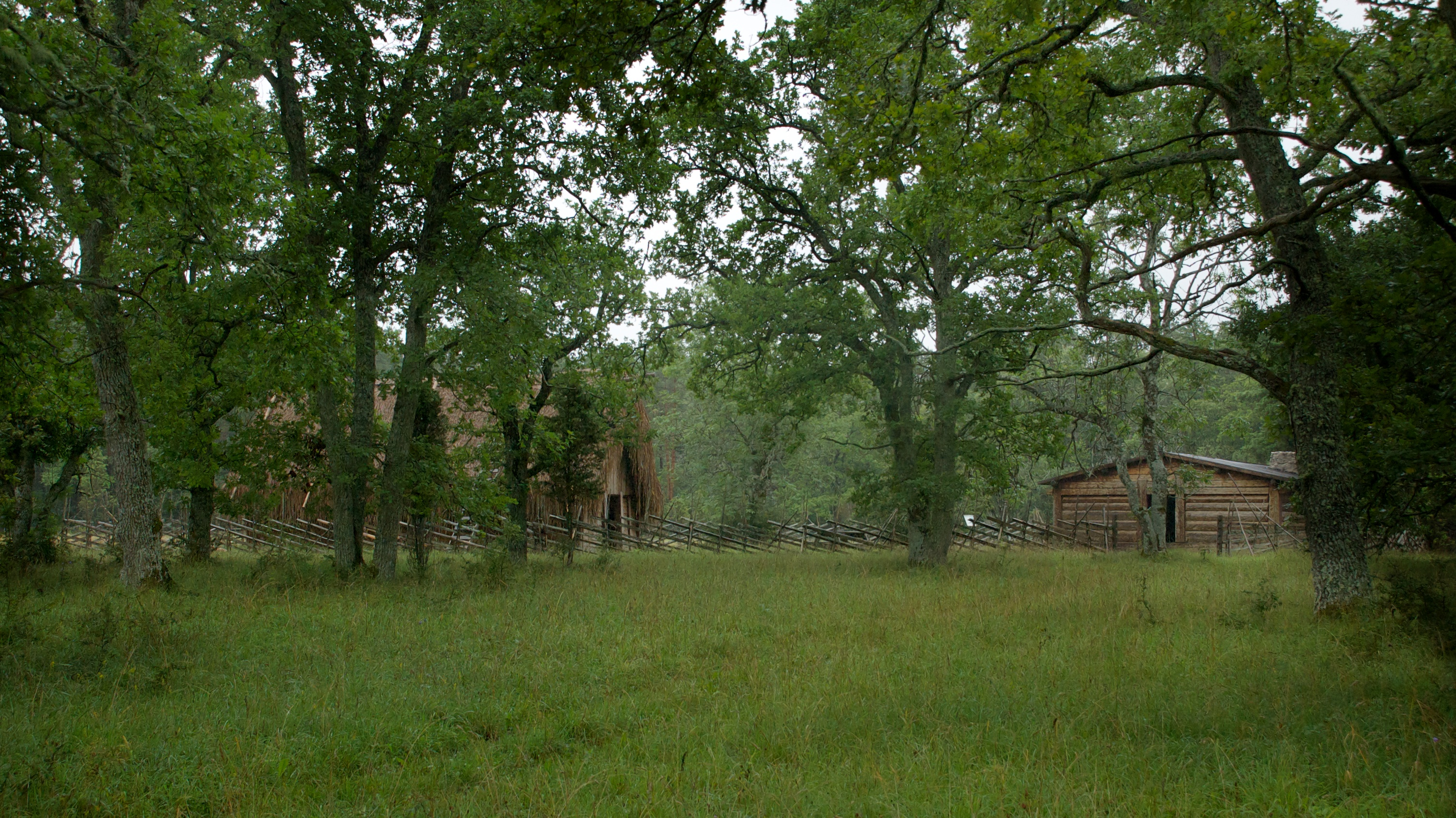 Reconstructed buildings at the former farm Fjäle nearby Ala, Gotland.